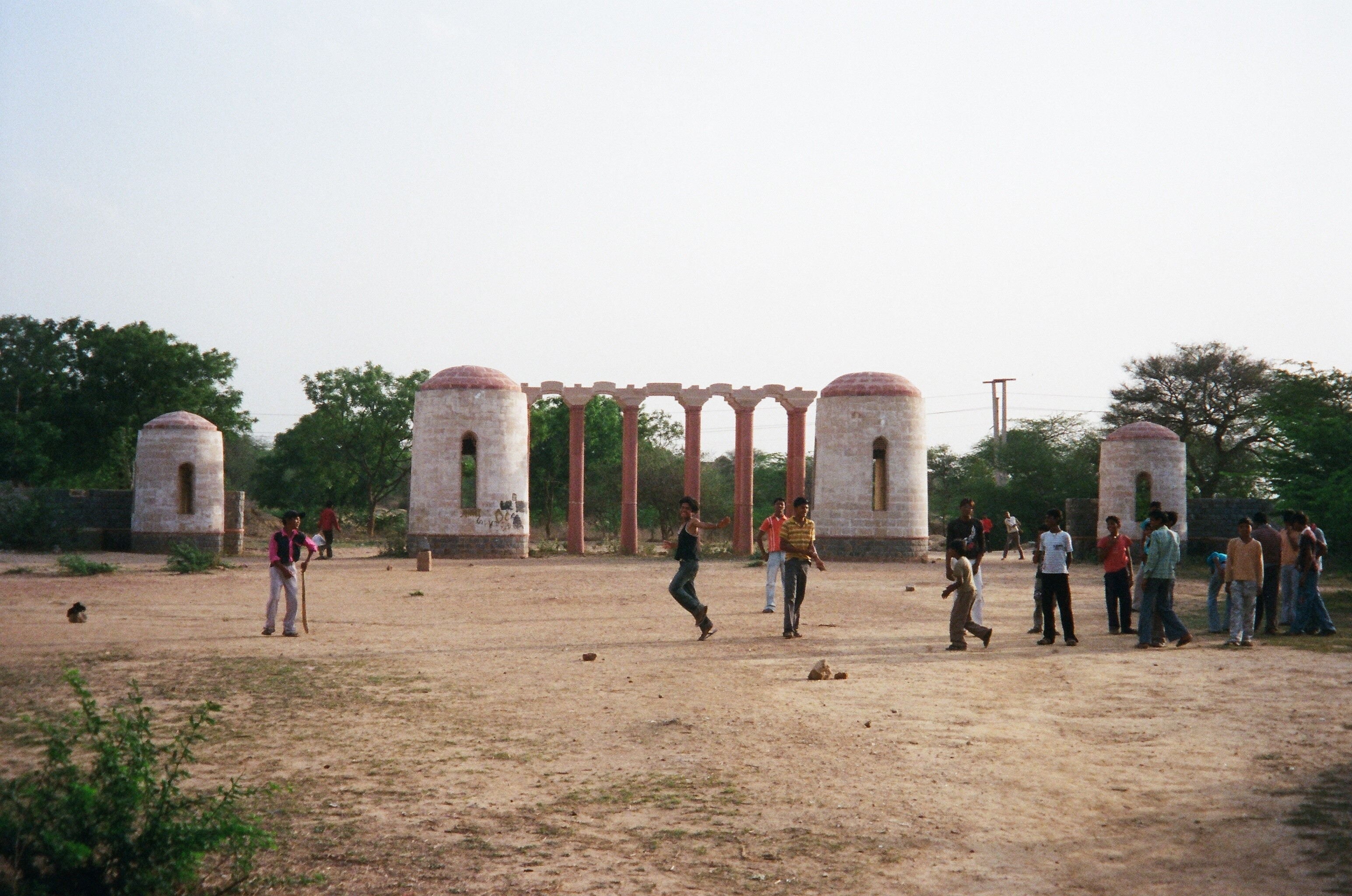 New Towers built by DDA at entracne to Sultan Garhi